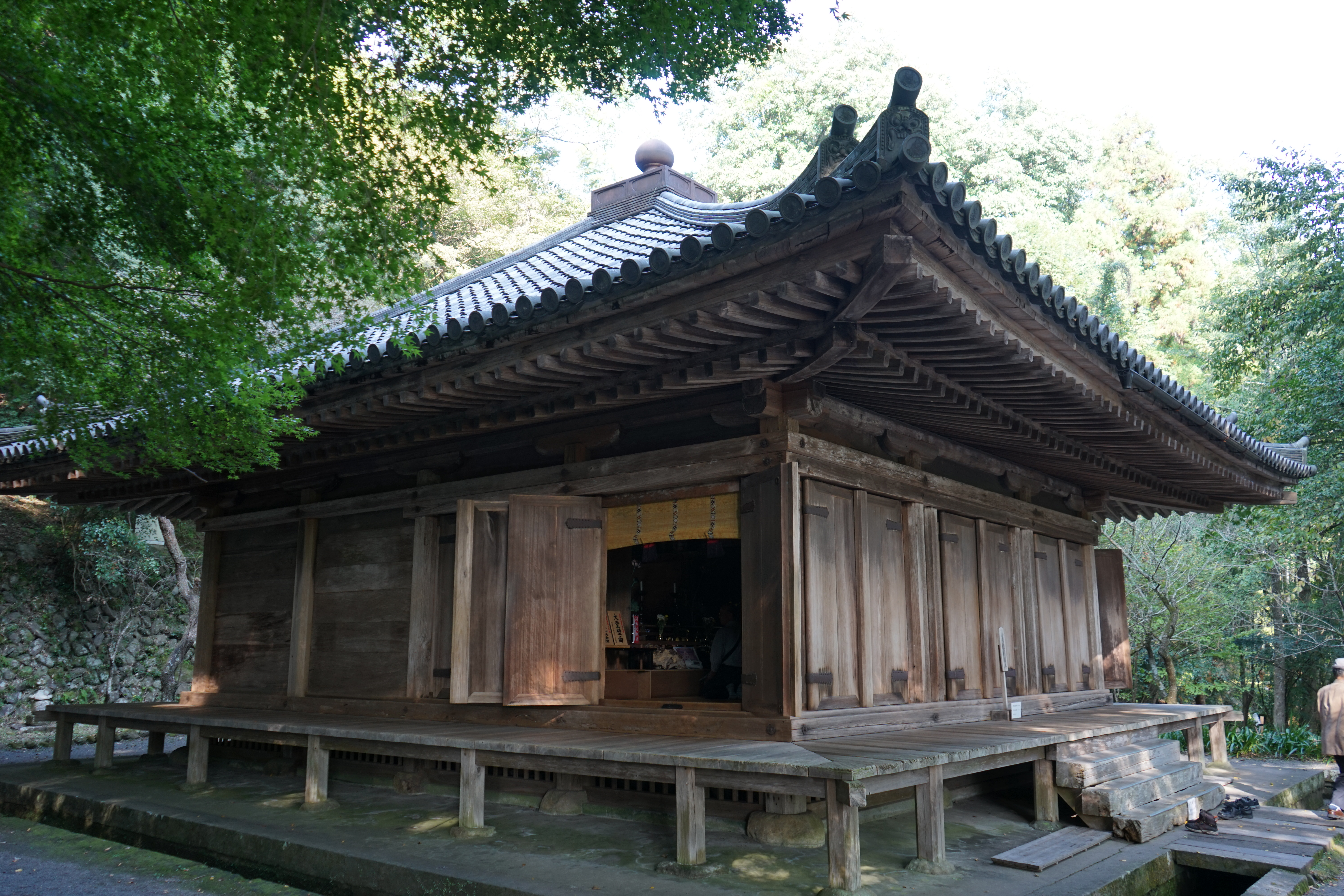 Fuki-ji Ō-dō, Oita, Japan.